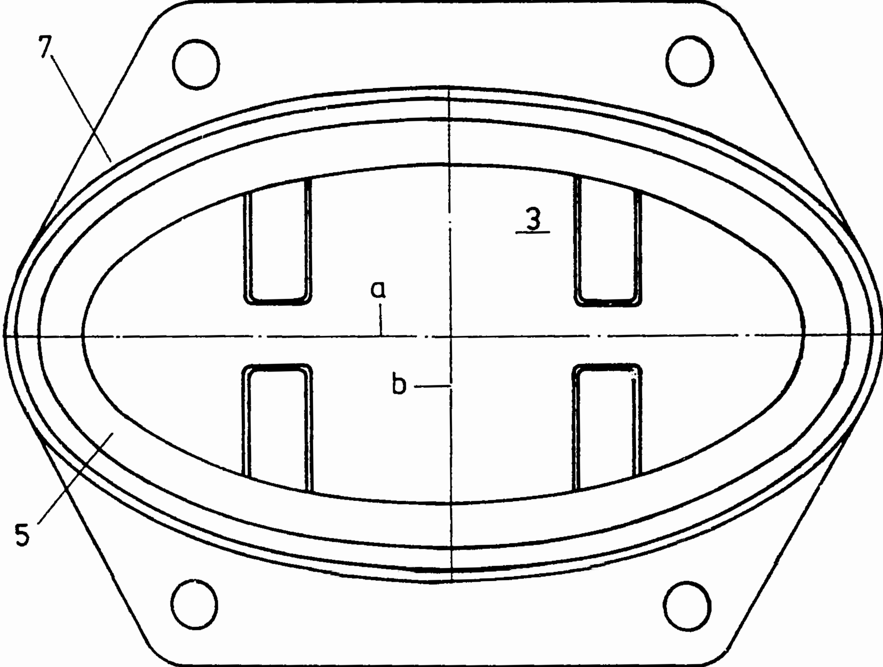 Drawing of the "Kölner Ei" from German patent DE2832989C2 from 1978